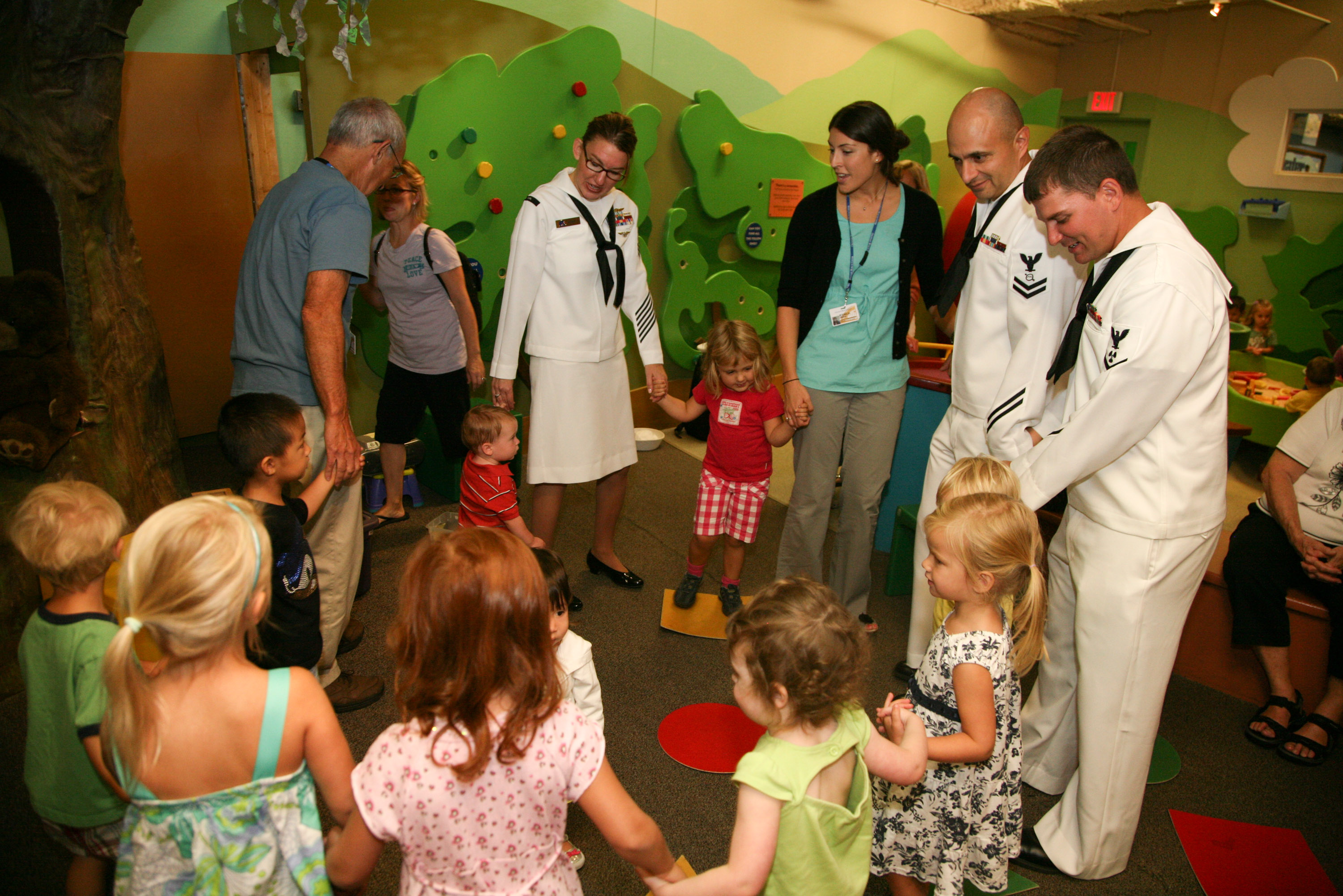 CINCINNATI (Aug. 31, 2011) Sailors take part in Story Tree Time at Duke Energy Children's Museum during Cincinnati Navy Week 2011, one of 21 Navy Weeks planned across America in 2011. Navy Weeks are intended to showcase the investment Americans have made in their Navy and increase awareness in cities that do not have a significant Navy presence. (U.S. Navy photo by Senior Chief Mass Communication Specialist Gary Ward/Released)